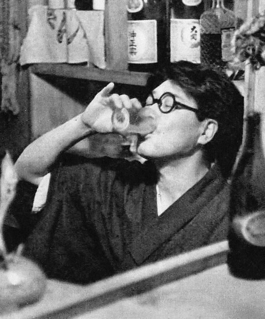 Shimpei Kusano